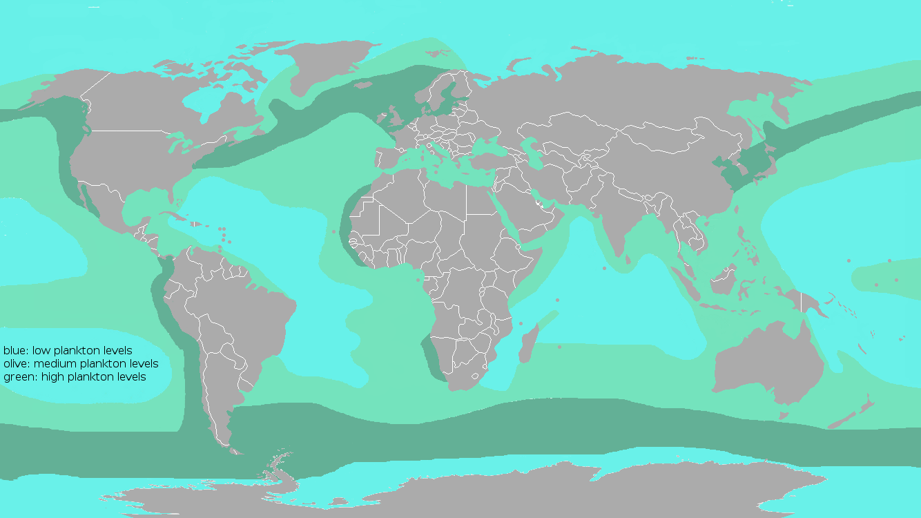 A schematic showing the abundance of plankton in the oceans. The schematic was based on an image in the book "Waardeer de oceanen" by Lawrence Williams. Plankton is a fish feed giving an indication of the richness of fishspecies and their numbers in that part of the ocean. It is an ocean fertiliser natural in origin (eg unlike others as ammoniumnitrate). Its variation in abundance shows what parts of the ocean are in more need of protection. Plankton is richer near landsurfaces (trough soil runoff carrying nutrients, ...). It is especially rich near river mouths.